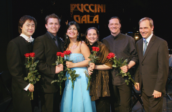 Klaudia Taevi nim. Ooperilauljate Konkursi auhinnavõitjad läbi aegade: Ji-Min Park (Lõuna-Korea), Ilja Siltšukov, Veronika Dzhioeva (Venemaa), (Valgevene), Tatjana Romanova (Eesti), Laimonas Pautienius (Leedu) ning PromFesti kunstiline juht Erki Pehk